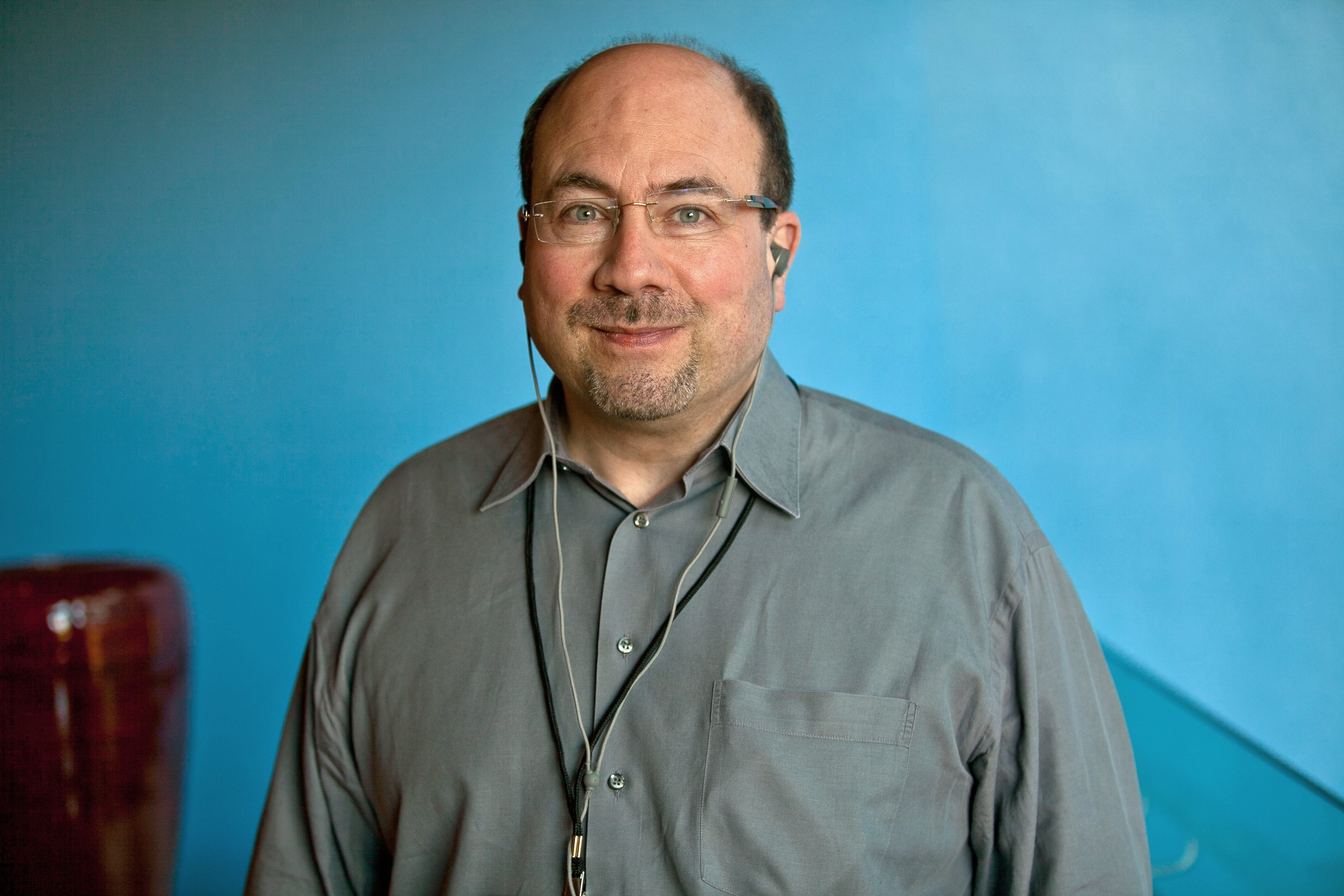 Taken on June 2, 2011